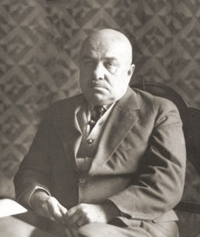 Stefan Hubicki (1877-1955) – Polish military physician, Minister of Social Welfare 1930-1934